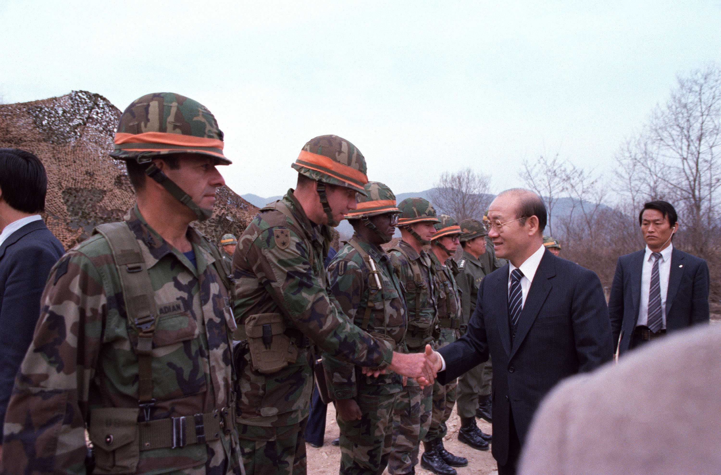 DA-SC-84-02430 President Chun Doo Hwan of South Korea meets with staff officers of the 25th Infantry Division at their field headquarters during the joint Korean/United States training exercise TEAM SPIRIT '83.